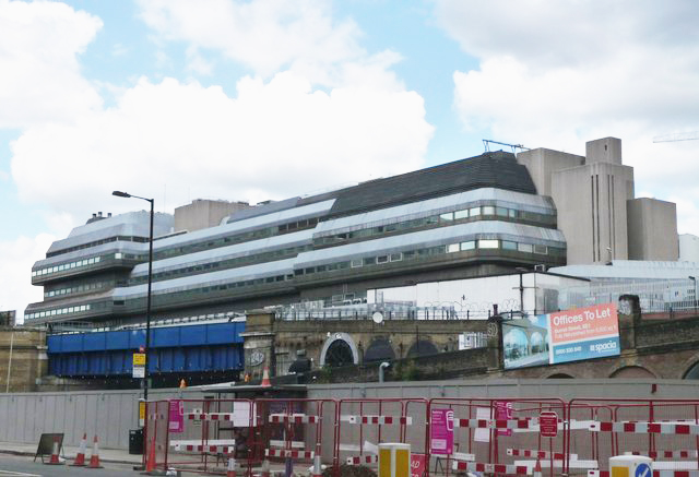 Sampson House, Hopton Street, near to City of London, Great Britain. Sampson House would probably be best described as a Brutalist building. It was built in 1976-9 to the designs of Fitzroy Robinson & Partners who made extensive use of exposed concrete. (See TQ3180 : Sampson House, Hopton Street for another view.) Admittedly it could be perceived as hostile to the passer-by with a lack of windows at street level and those above being mirrored, but even so I find it impressive. The railway line just over the river from Blackfriars station affords a much better view. It is currently occupied by IBM. To my mind, in this photo it seems to float above the perpetual clutter of London's streets like a bloated alien spacecraft.